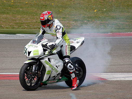 26 april Assen 2009 round 4 Supersport